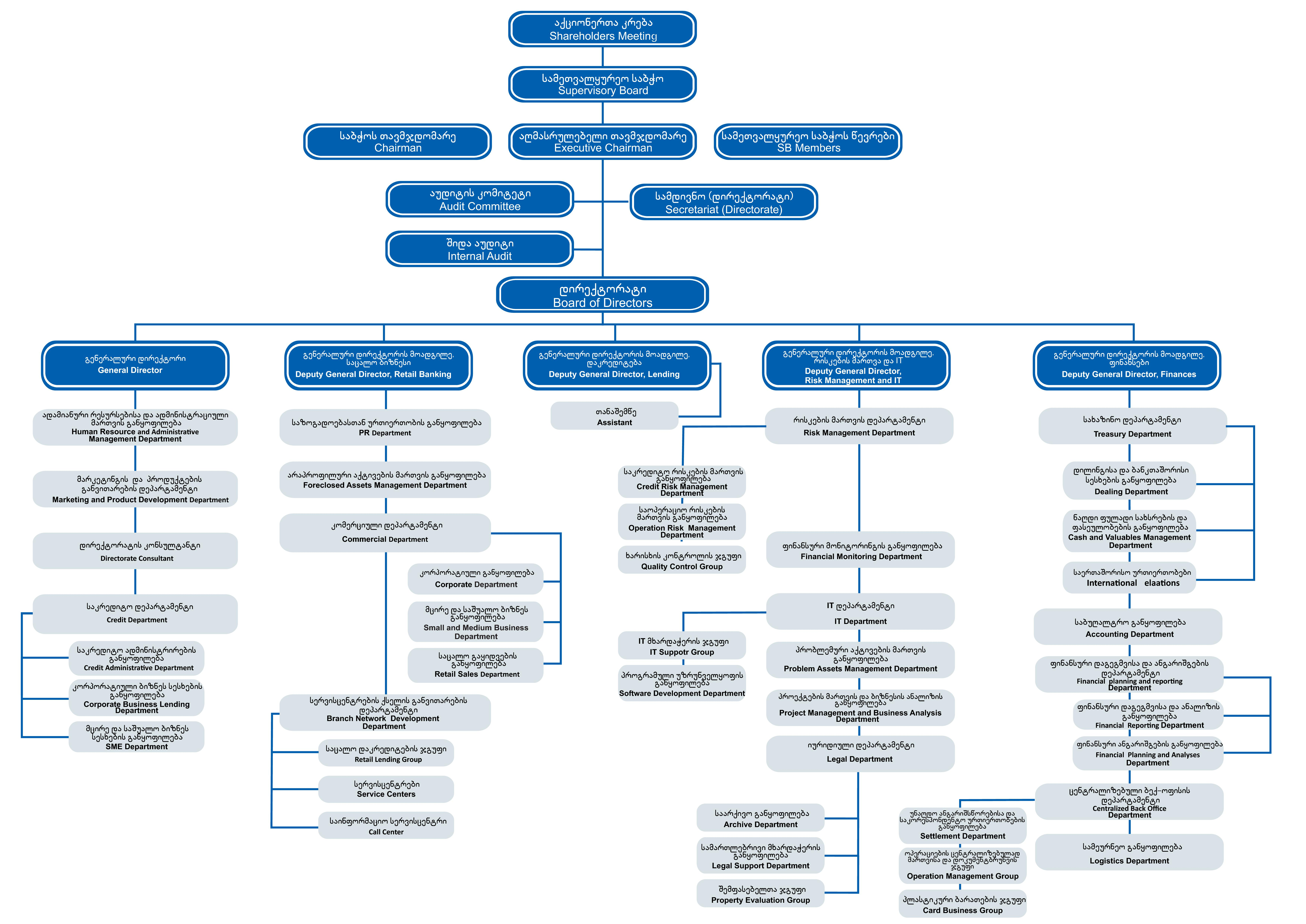 JSC Basisbank - Organization Structure